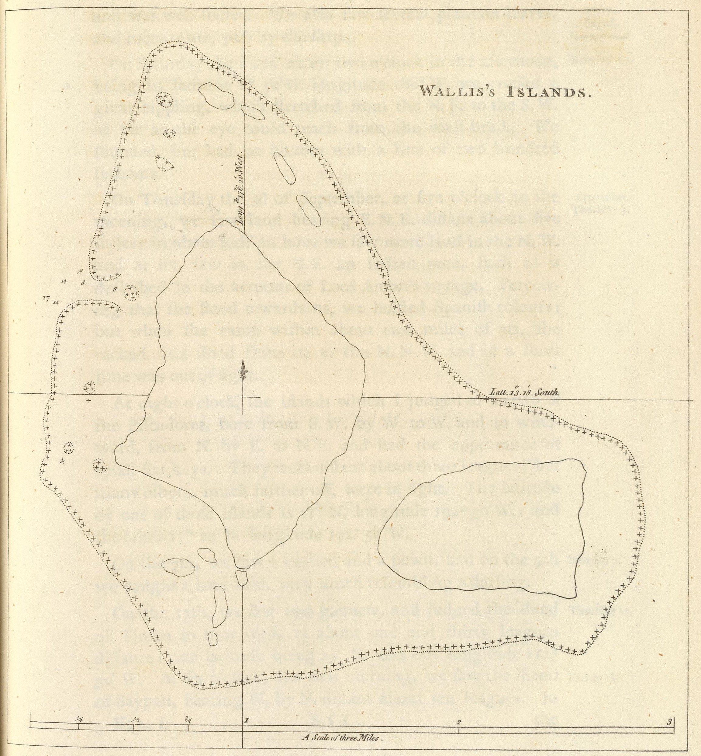 Map of Wallis islands drawn by Samuel Wallis in 1773. Wallis visited Uvea in 1767 and named it Wallis island. The map is really inaccurate (compare with File:Wallis_(topographic-fr).svg). It may be the first map of Wallis island. This map is from the book An account of the voyages undertaken by the order of His present Majesty for making discoveries in the Southern Hemisphere, and successively performed by Commodore Byron, Captain Wallis, Captain Carteret, and Captain Cook, in the Dolphin, the Swallow, and the Endeavor. Drawn up from the journals which were kept by the several commanders, and from the papers of Joseph Banks, Esq; by John Hawkesworth, LL.D. In three volumes. Illustrated with cuts, and a great variety of charts and maps relative to countries now first discovered, or hitherto but imperfectly known. London: printed for W. Strahan; and T. Cadell in the Strand, MDCCLXXIII.